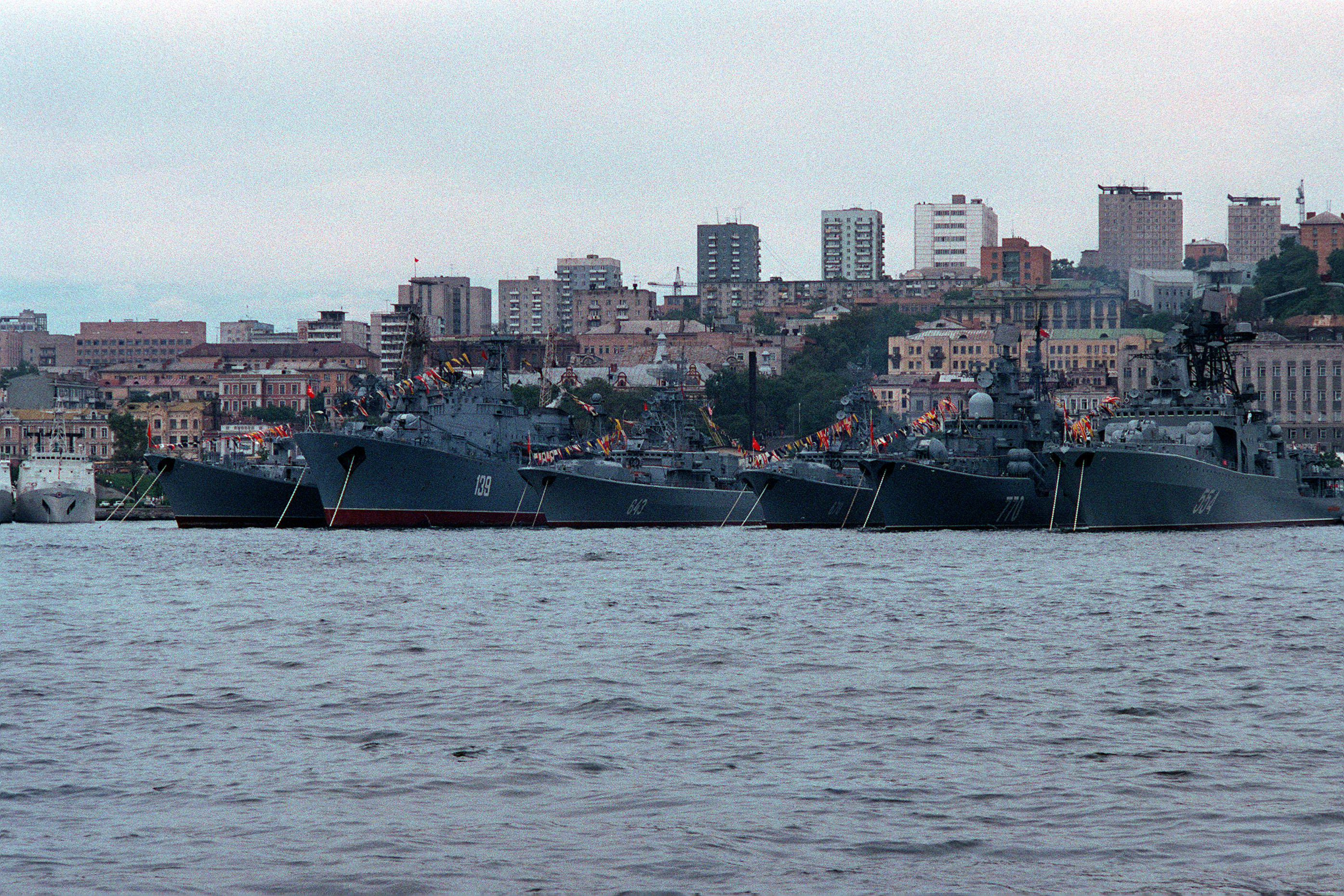 Details: ID: DNSC9102254 Service Depicted: Other Service Pennants fly from six ships of the Soviet Pacific Fleet tied up at the city's docks during a visit to the city by two US Navy ships. The Soviet ships are, from left, a Kara class guided missile destroyer, an Borodino class training ship, two Krivak class guided missile frigates, a Sovremenny class guided missile destroyer and a Udaloy class guided missile destroyer. Location: Vladivostok, Siberia, U.S.S.R. (SUN) Camera Operator: PHCS TERRY MITCHELL Date Shot: 10 Sep 1990 Sourced from